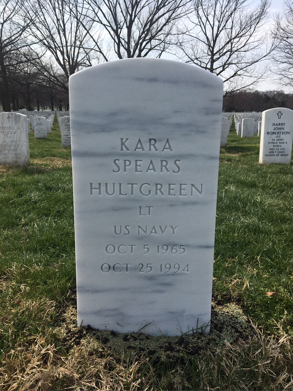 Grave of Kara Hultgreen at Arlington National Cemetery